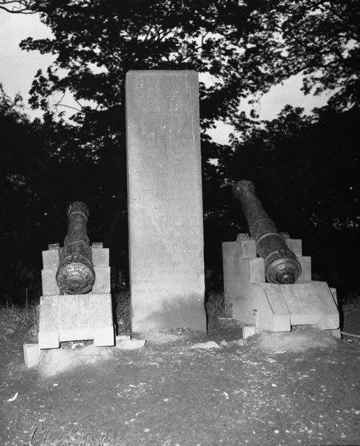 'Mount Aeolus', Bishopscourt Glen, Isle of Man The little-known Bishopscourt Glen was formerly part of the garden belonging to the Bishop of Man and Sodor. The curious mound named 'Mount Aeolus' is shaped like Tynwald Hill, and as seen here, at its summit were two guns. These guns are not there now: they were stolen in 1987, and have not been recovered. The inscription on the tablet reads: ‘'This mound was formed into its present shape and called Mount Aeolus by Bishop Hyldesley to commemorate the victory of the English over the French fleet under Thurot off this coast Feb 25th 1760. The bowspit of the ship Belleisle was originally placed on this spot - but two cannons are all that remains as trophies of the victory.[1]